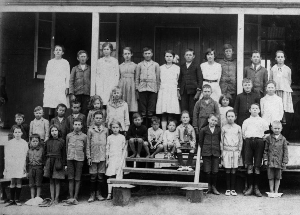 Students of Moore State School, ca. 1915. Group portrait of students of Moore State School. The schoolchildren pose in rows on the front steps and verandah of the school. Four young children sit on the steps in the centre of the group.